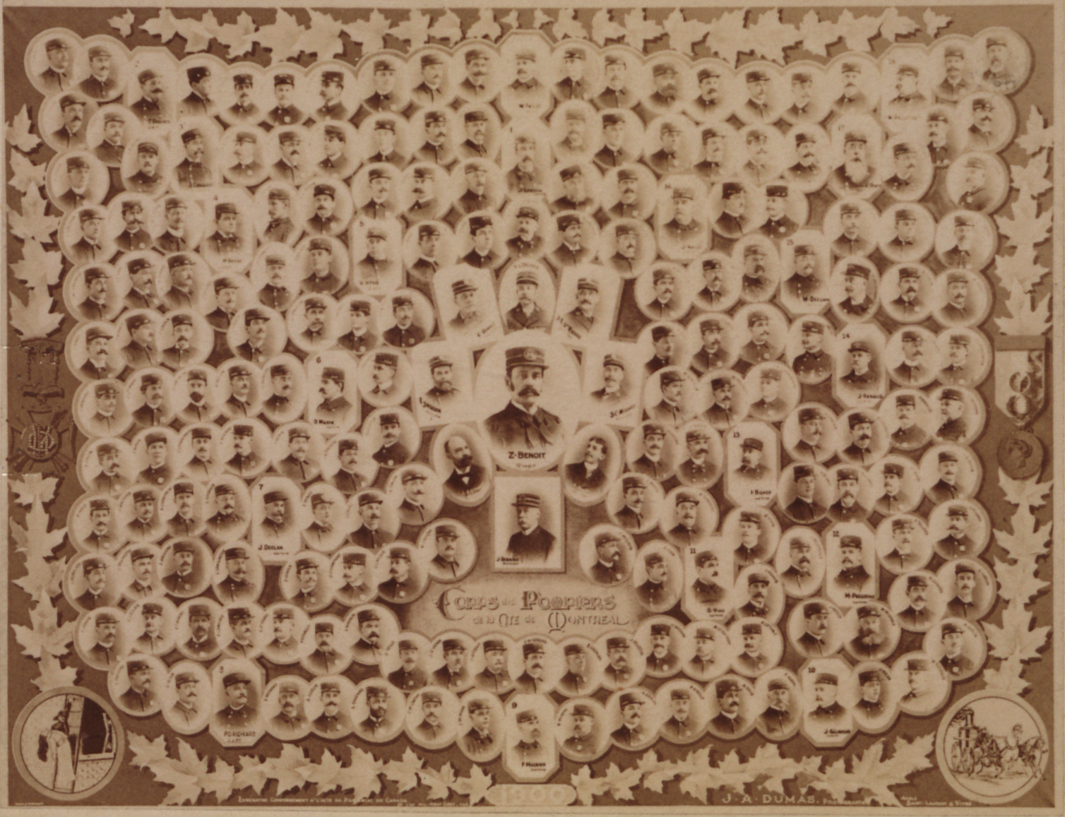 The Corps of Firemen of the City of Montreal (Quebec, Canada) in 1900